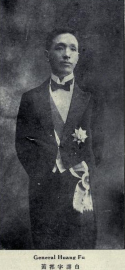 Huang Fu, Yingbai (1880 - 1936)